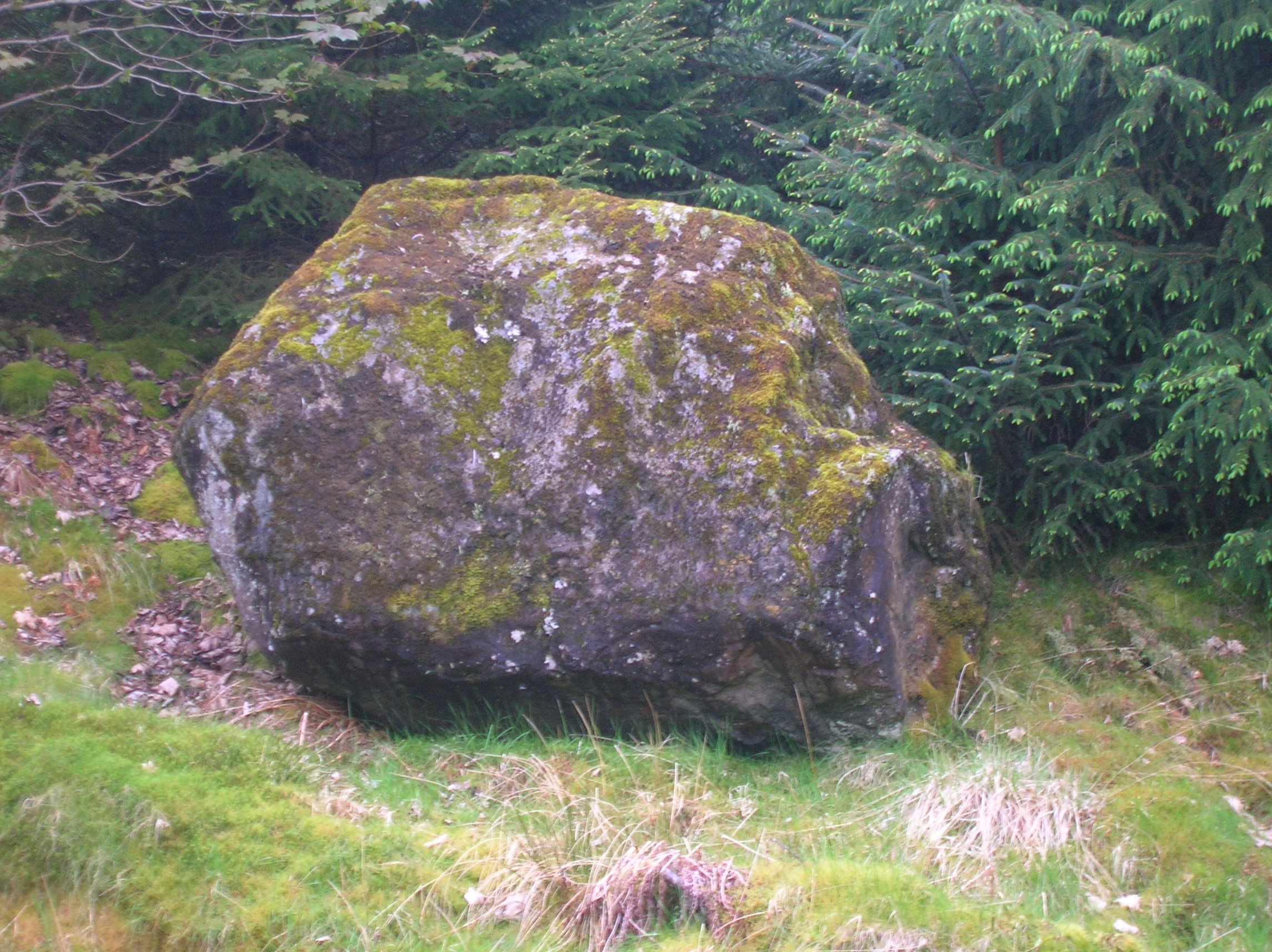 The Carlin Stone at Craigends Farm in East Ayrshire. 2007. Rosser 17:04, 11 May 2007 (UTC)